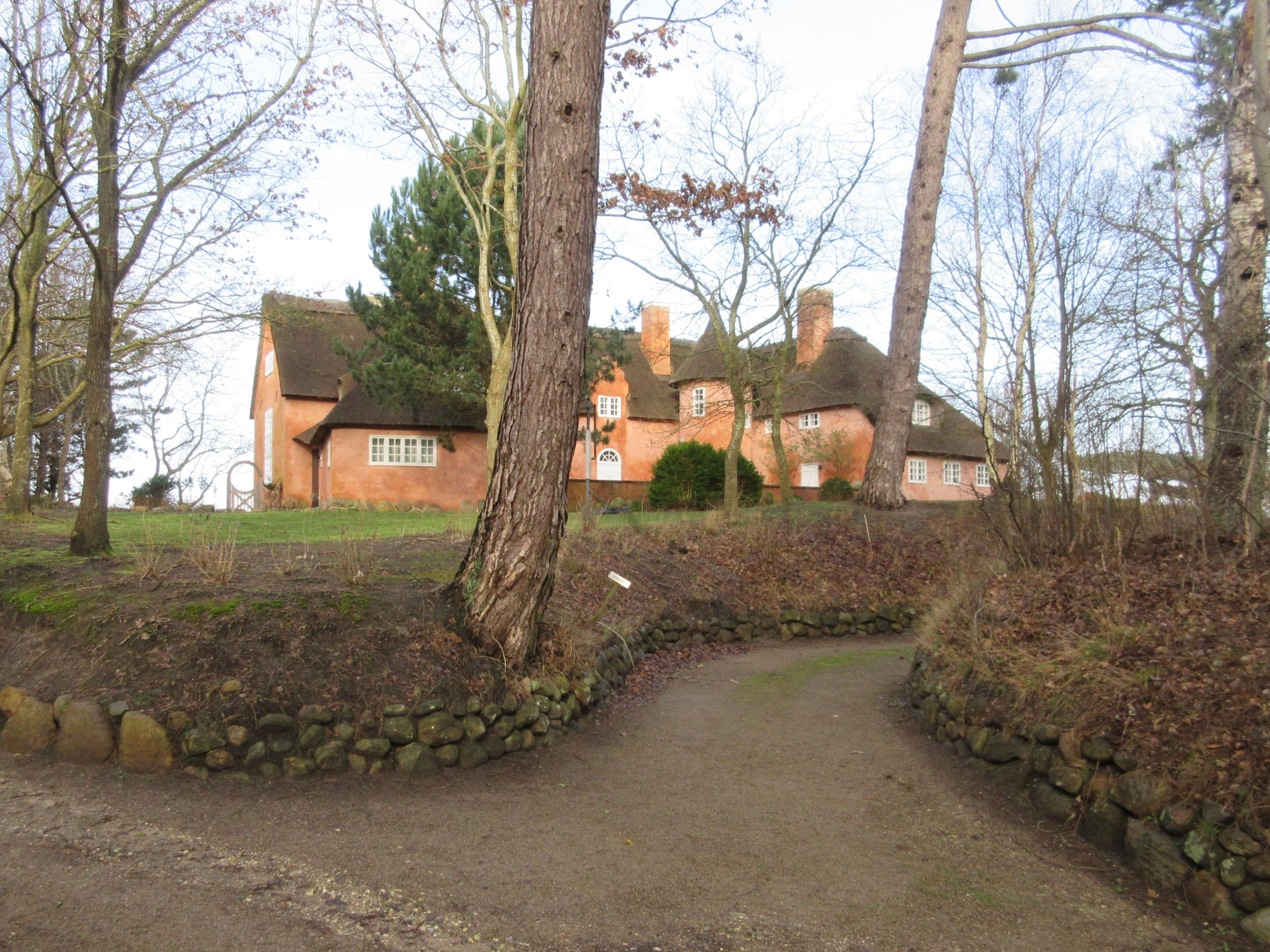 Rågegården